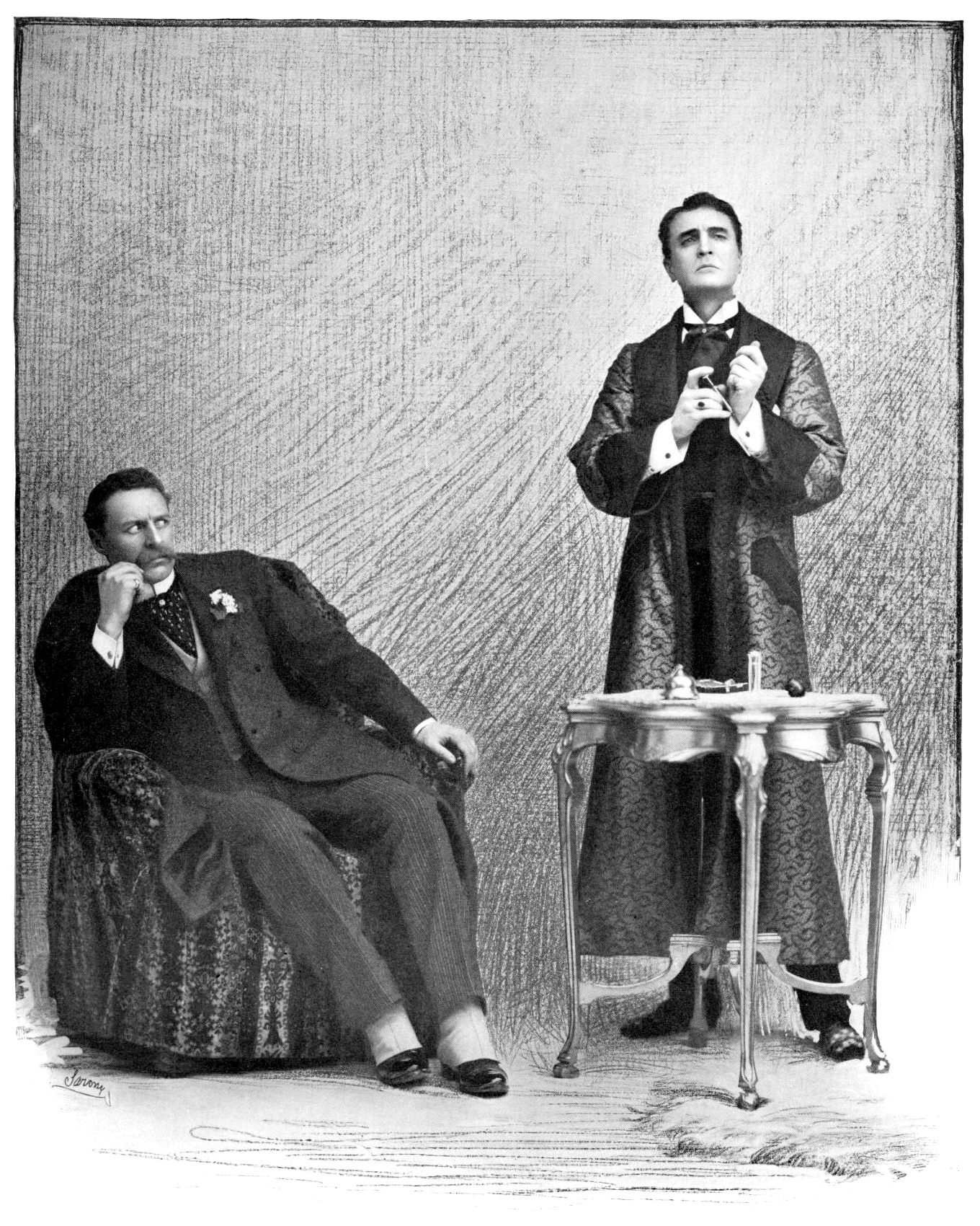 Photograph of Bruce McRae as Dr. John Watson and William Gillette as Holmes in the play Sherlock Holmes Caption reads as follows: Holmes and his "hypodermic", with Dr. Watson, Act II